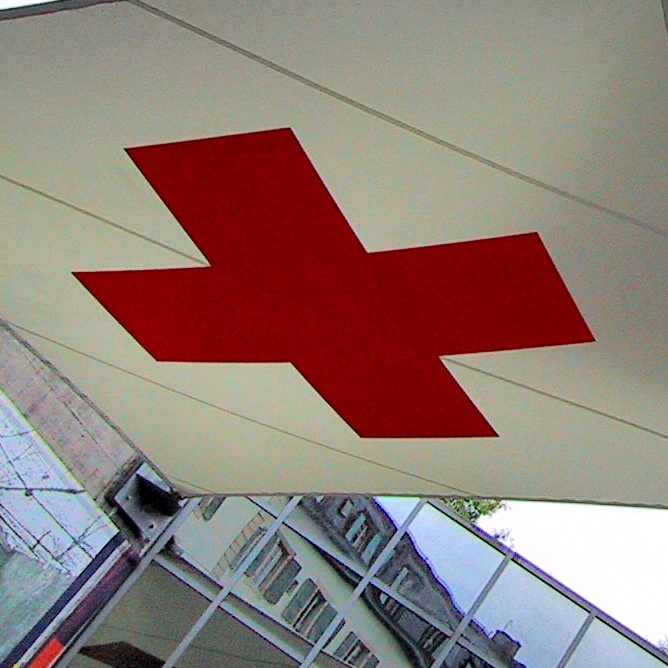 The Red Cross emblem at the museum in Geneva.